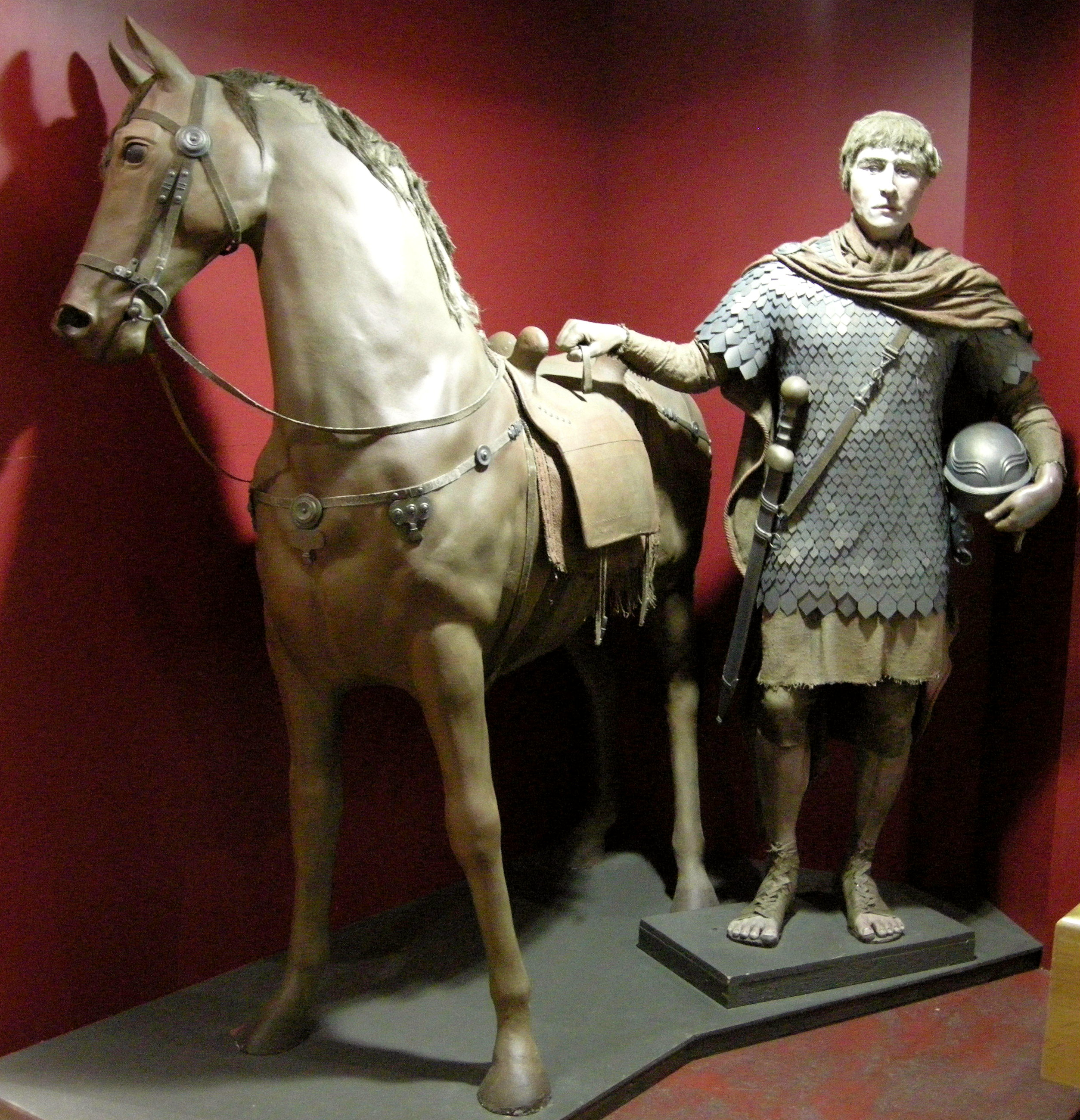 Roman Museum in Butchery Lane, Canterbury, Kent. Reconstruction of cavalryman with horse, wearing reconstruction of harness like the original Roman pieces which are exhibited separately.